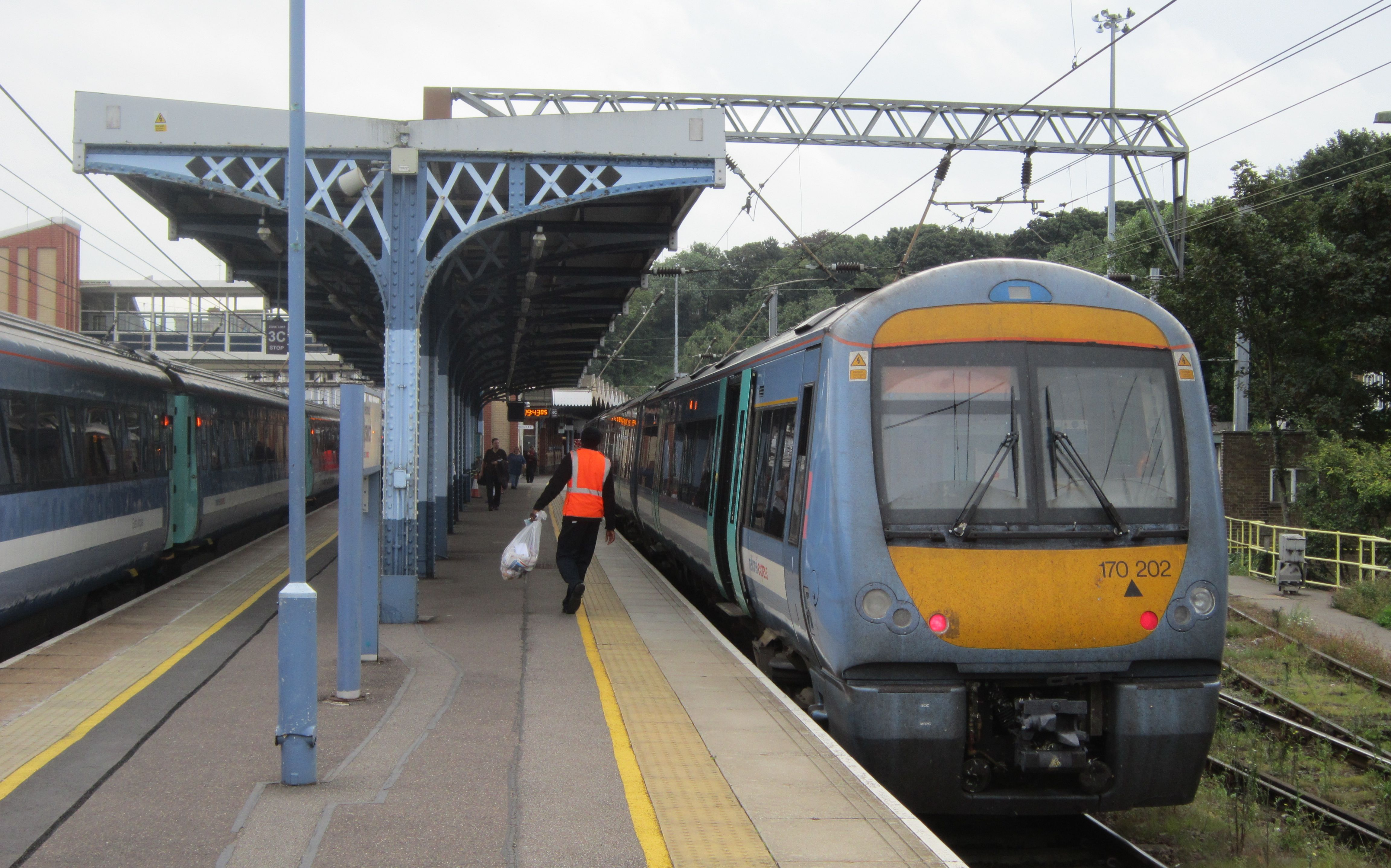 National Express East Anglia 170202 at Ipswich railway station